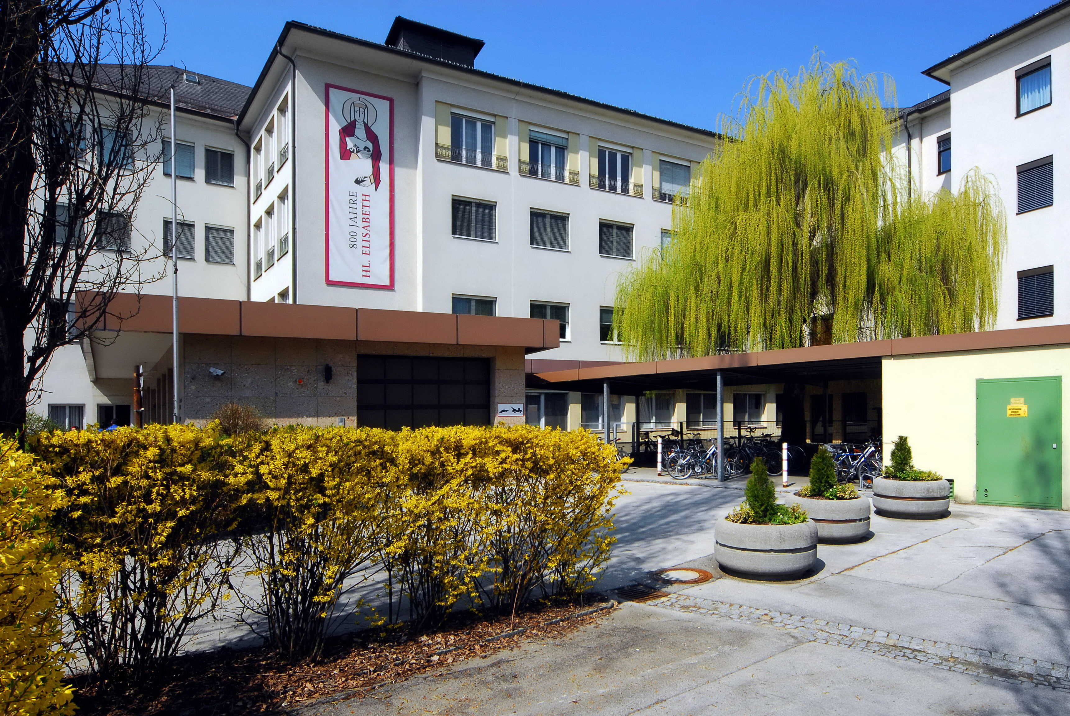 Elisabethan hospital on the Voelkermarkter Street in the 6th district "Völkermarkter Vorstadt" of Carinthian`s capital Klagenfurt on the Lake Woerth, Carinthia, Austria